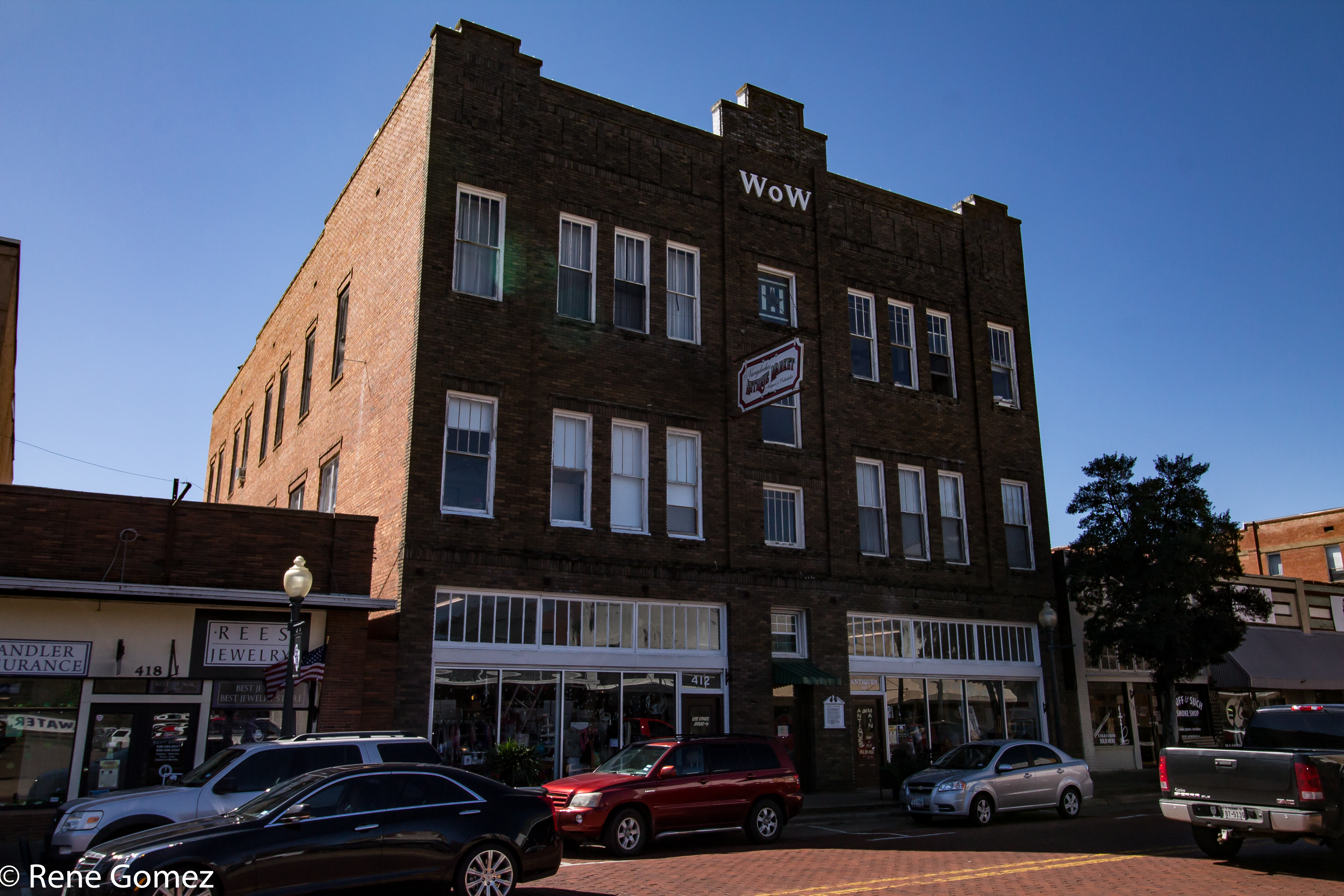 Woodman of the World Building in Nacogdoches, Texas